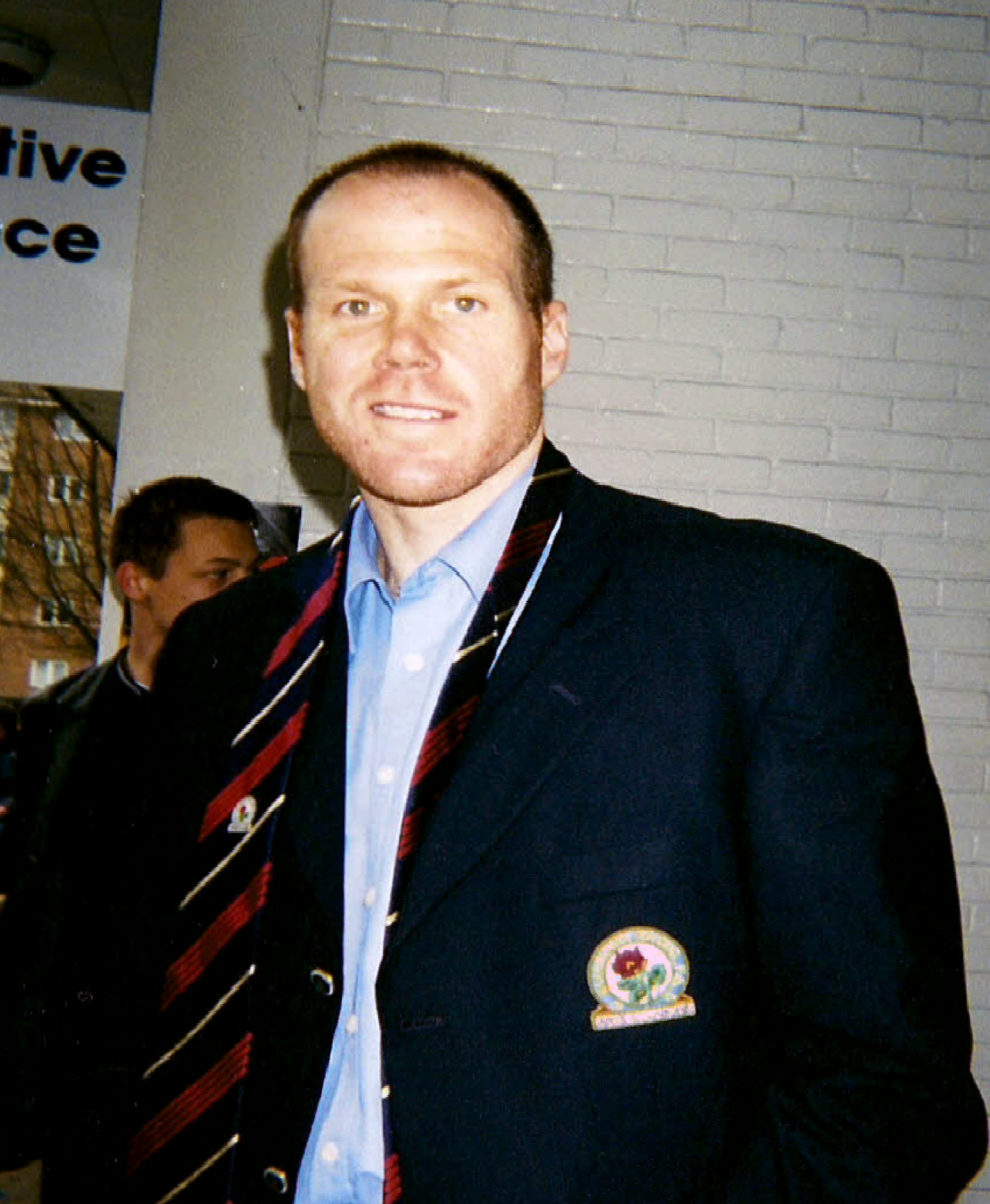 Brad Friedel posing for picture outside Loftus Road following QPR vs Blackburn Rovers on 07.04.2001